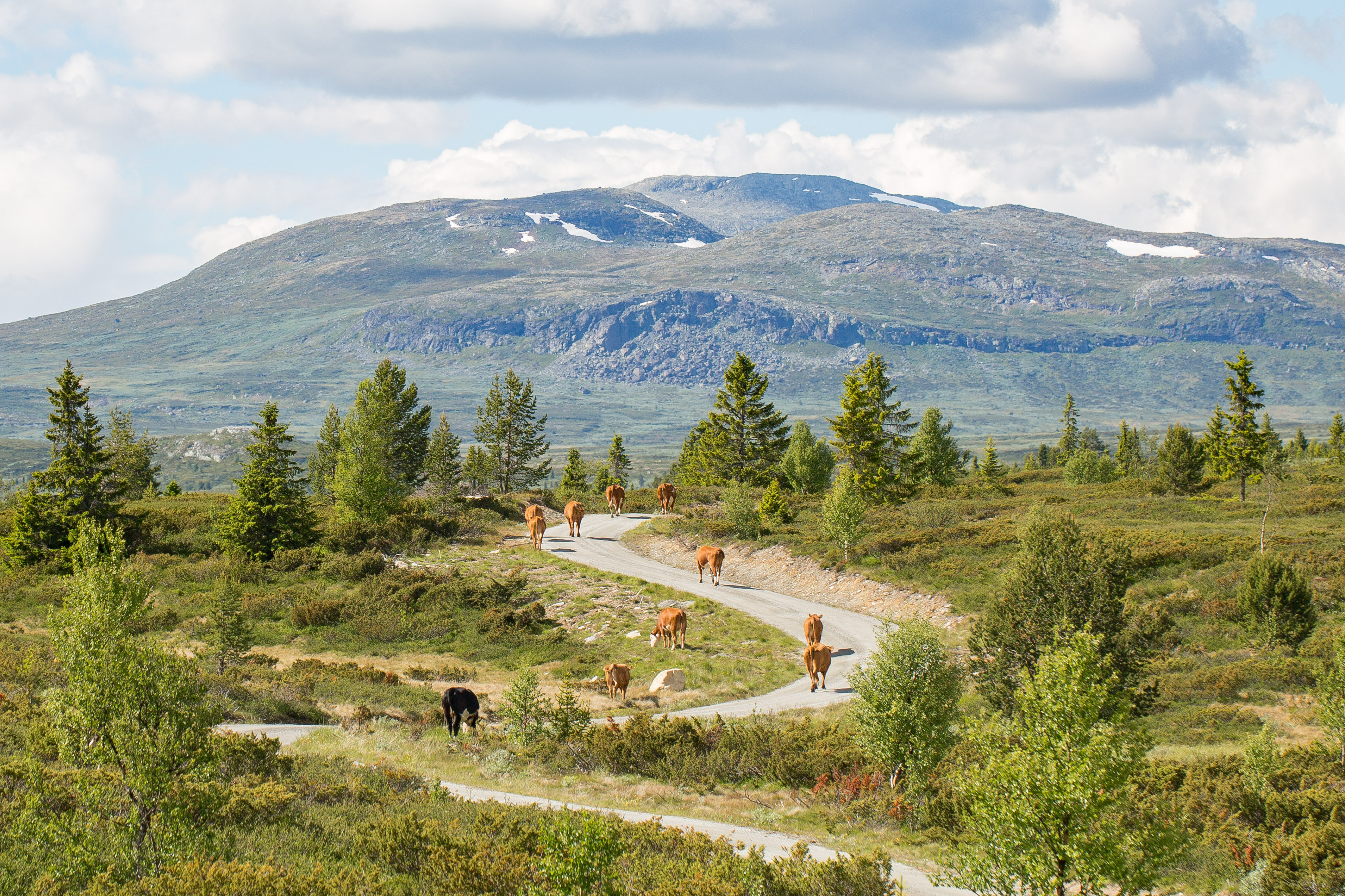 Cows in Norway walking with the Grytingen mountain in the background. Torpo, Ål, Norway